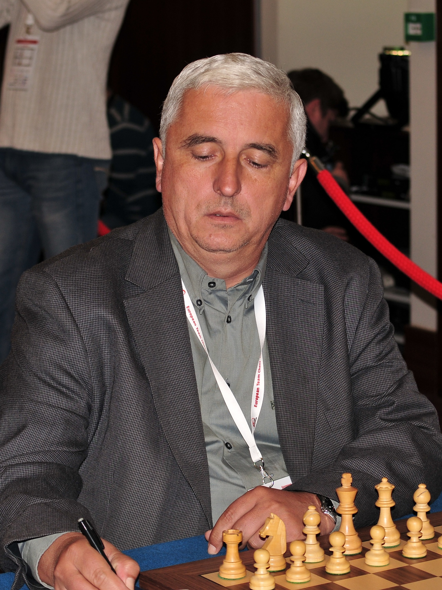 GM Zdenko Kožul, European Chess Team Championship Warsaw 2013